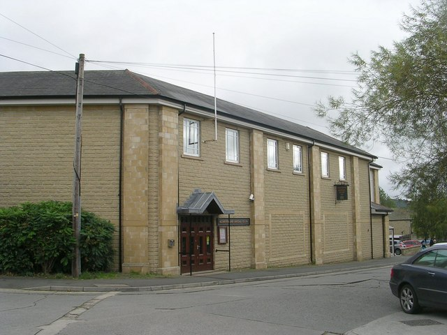 Sunnybank Social Club - Hillcrest Avenue